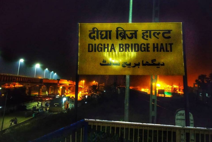 Dighabridgehaltstation